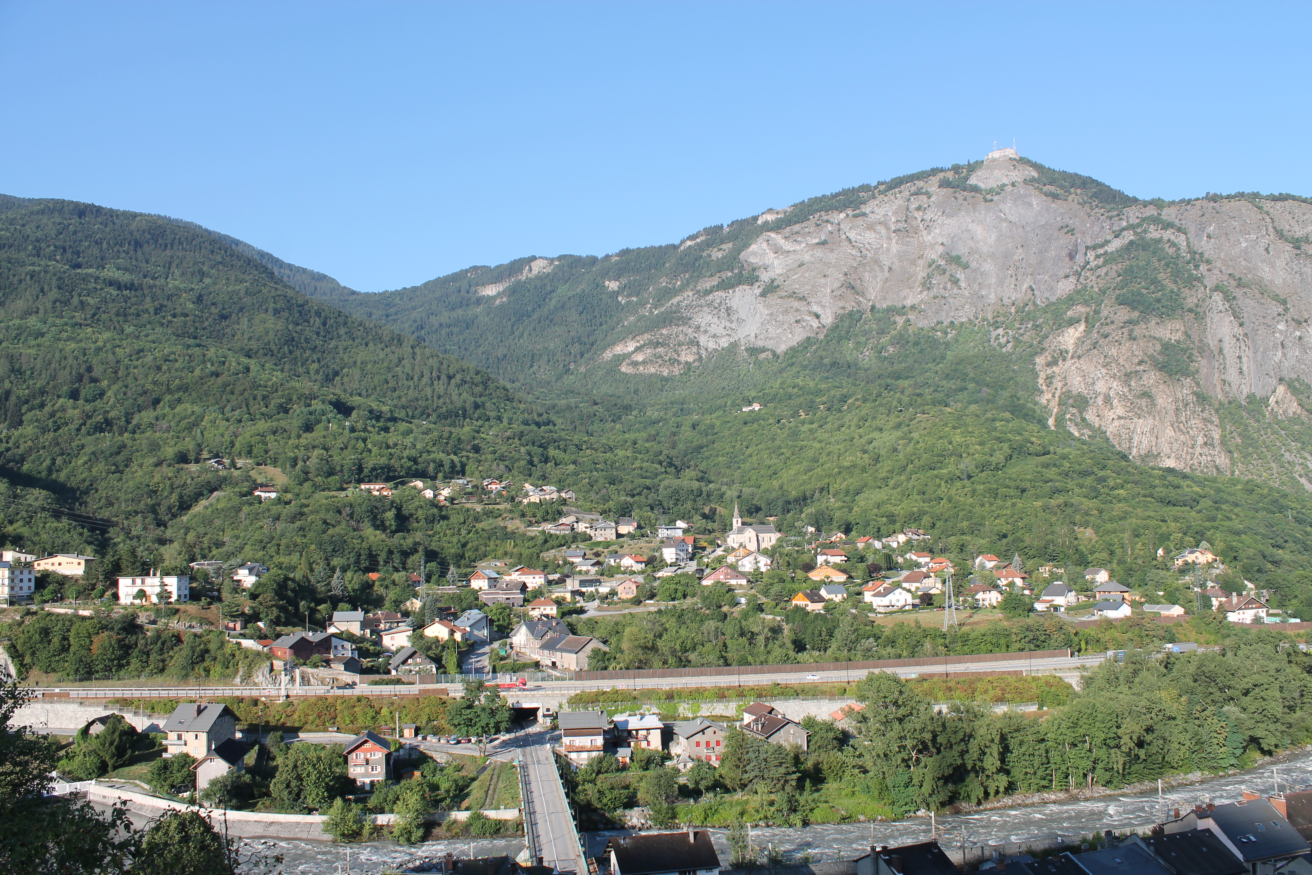 Commune of Saint-Martin-d'Arc in the Maurienne valley, Savoie.